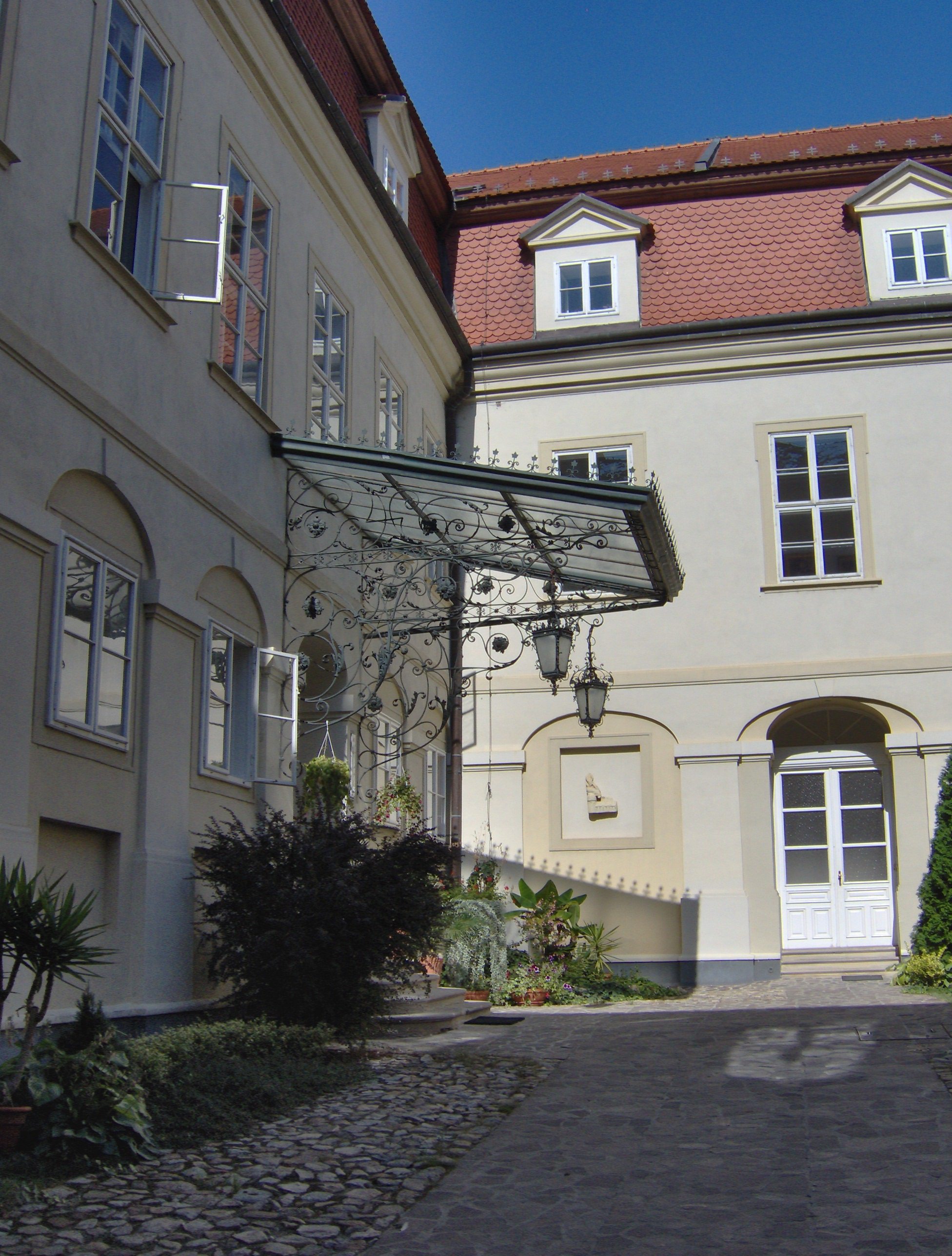 Nitra Castle